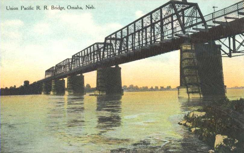 The second Union Pacific Railroad Bridge across the Missouri River between Omaha, Nebraska and Council Bluffs, Iowa. Designed by George S. Morison (1842-1903), it was built in 1887, then replaced in 1916.